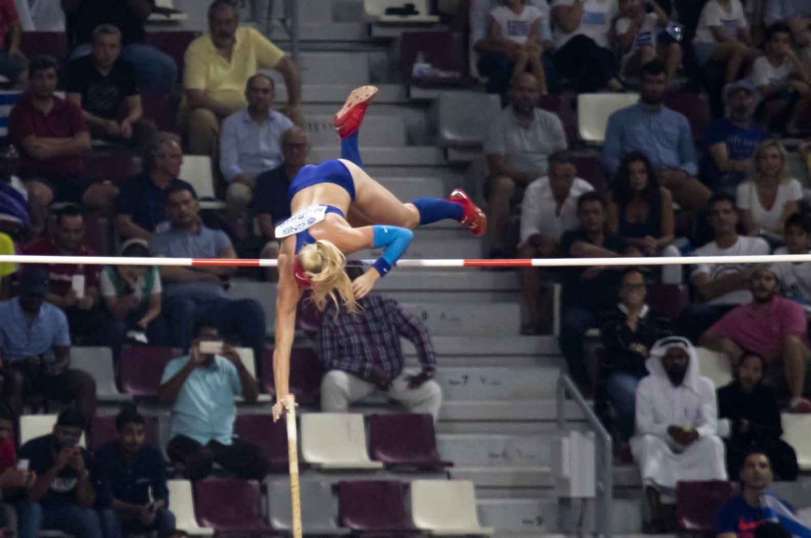 Sandi Morris, finishing second at the 2019 World Athletics Championships women's pole vault final.